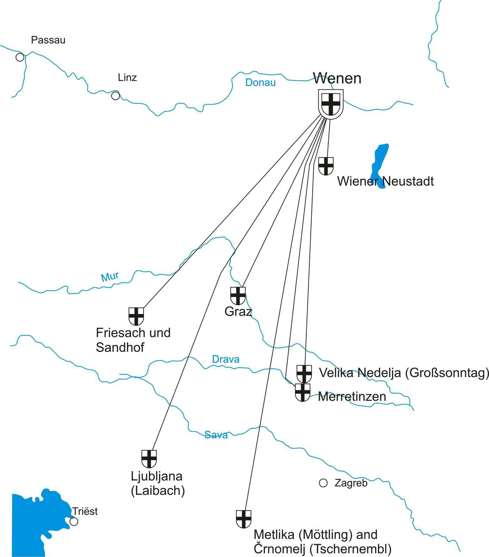 map of the bailiwick of Austria of the Teutonic Order (1788)